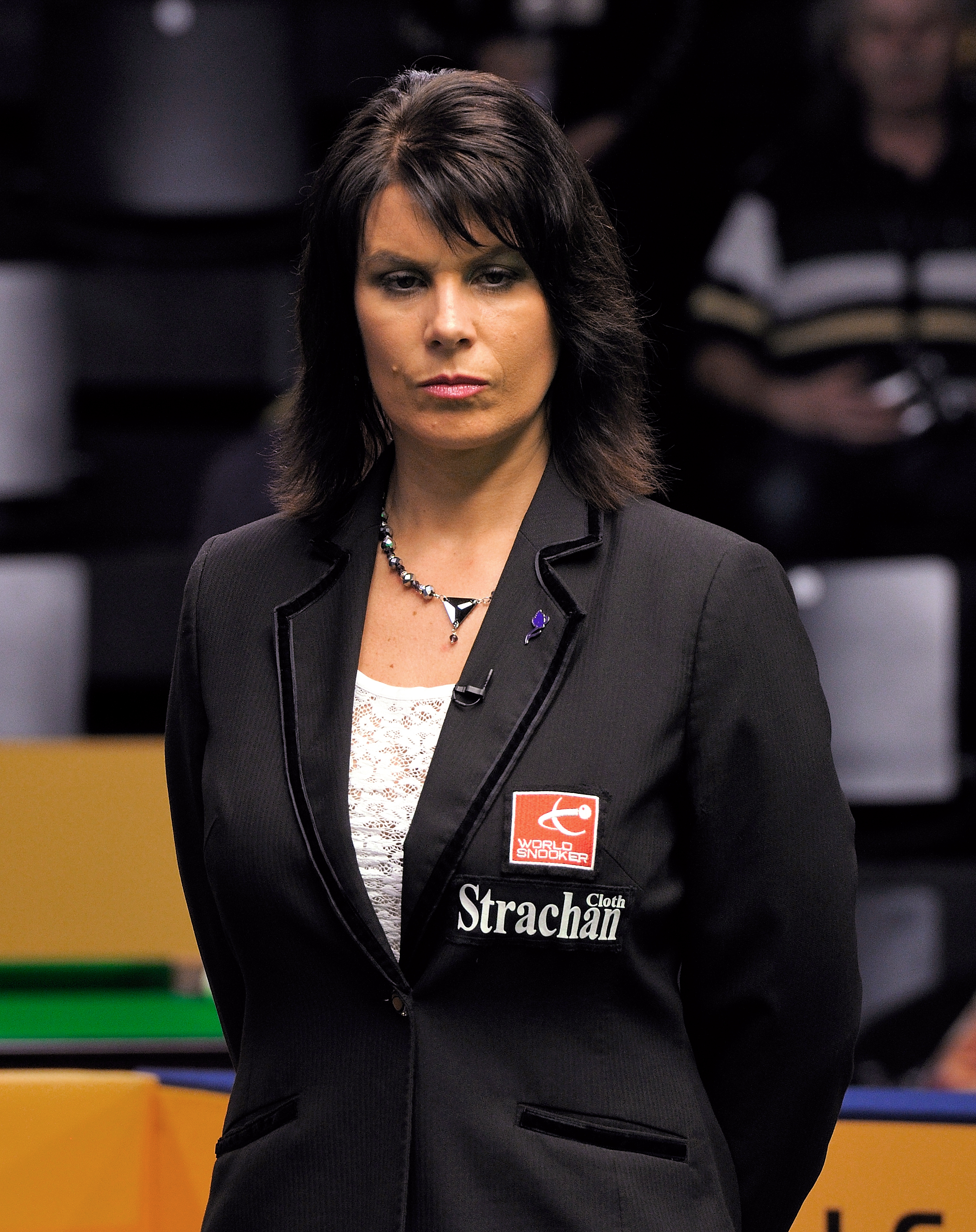 Picture taken in Berlin during the Snooker German Masters in 2013. Michaela Tabb.